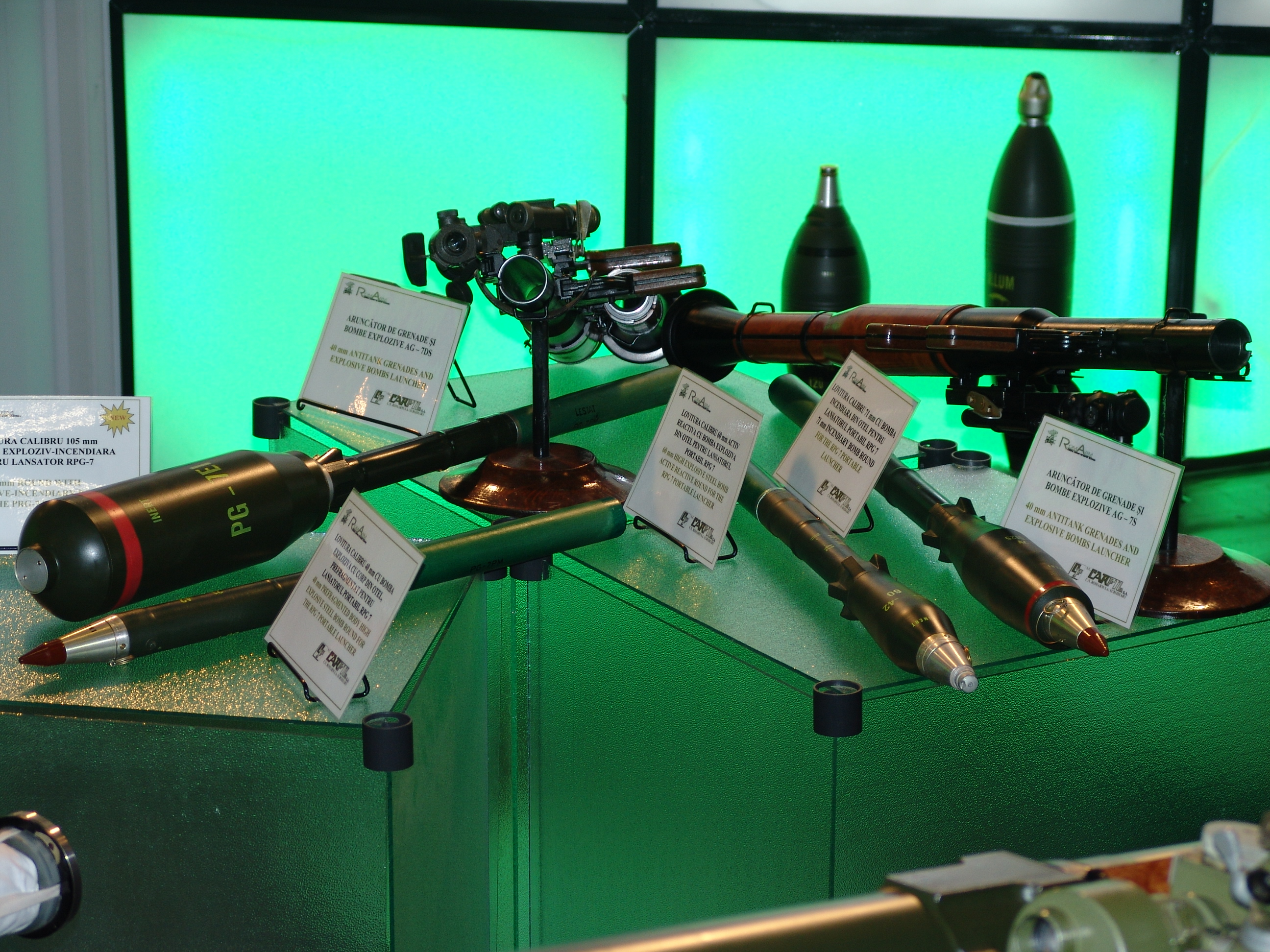 AG-7 (licensed built RPG-7) on display at Expomil '05.